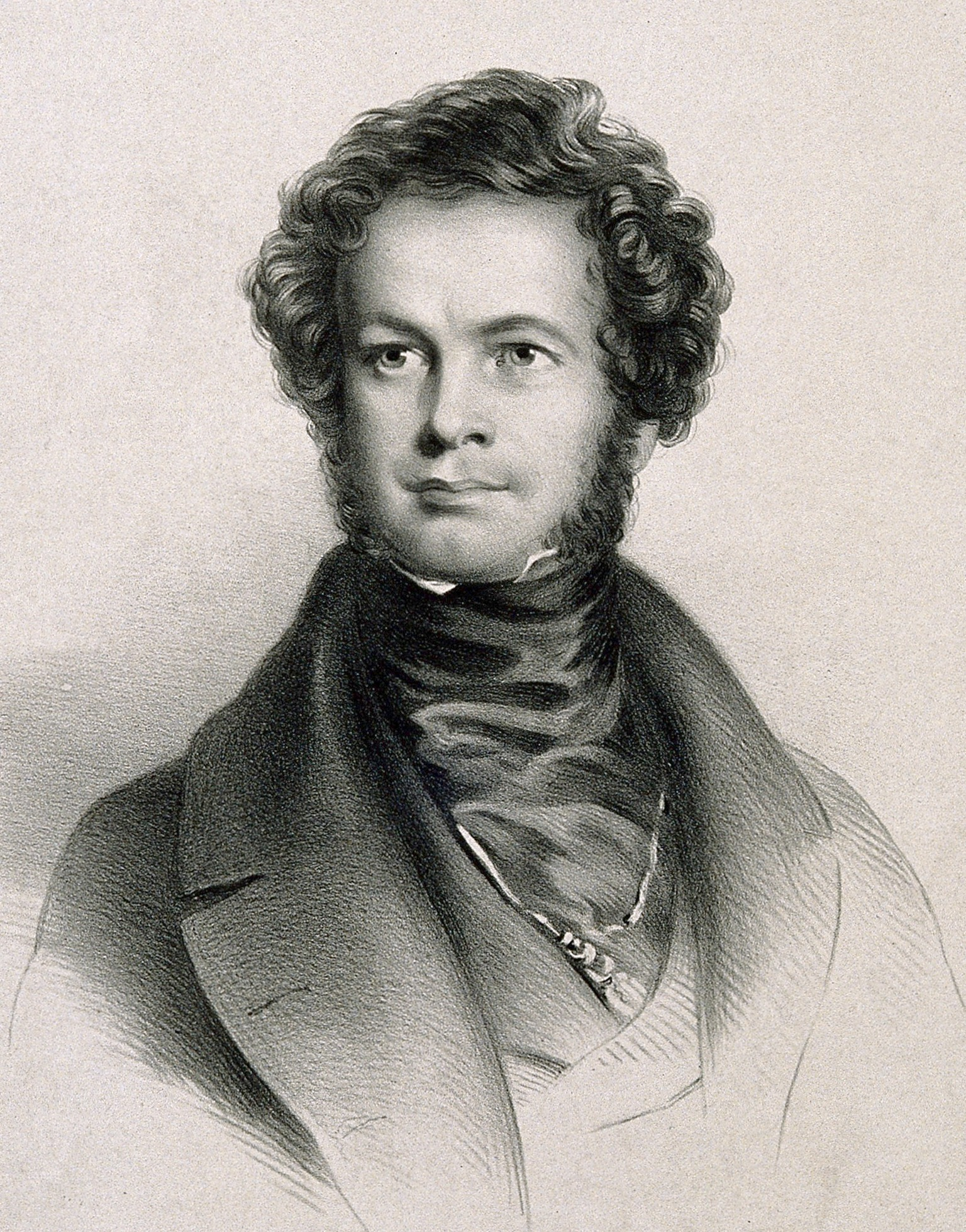 Genre/Technique: Portrait prints. Lithographs. Subject name: Quin, F. F. (Frederic Hervey Foster), 1799-1878.